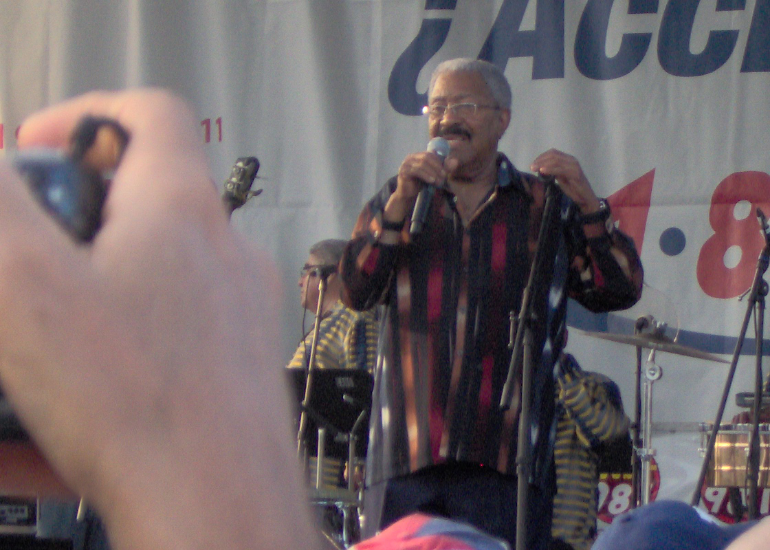 El Gran Combo band leader, Rafael Ithier